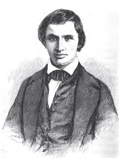 Rev. J.D. Collins